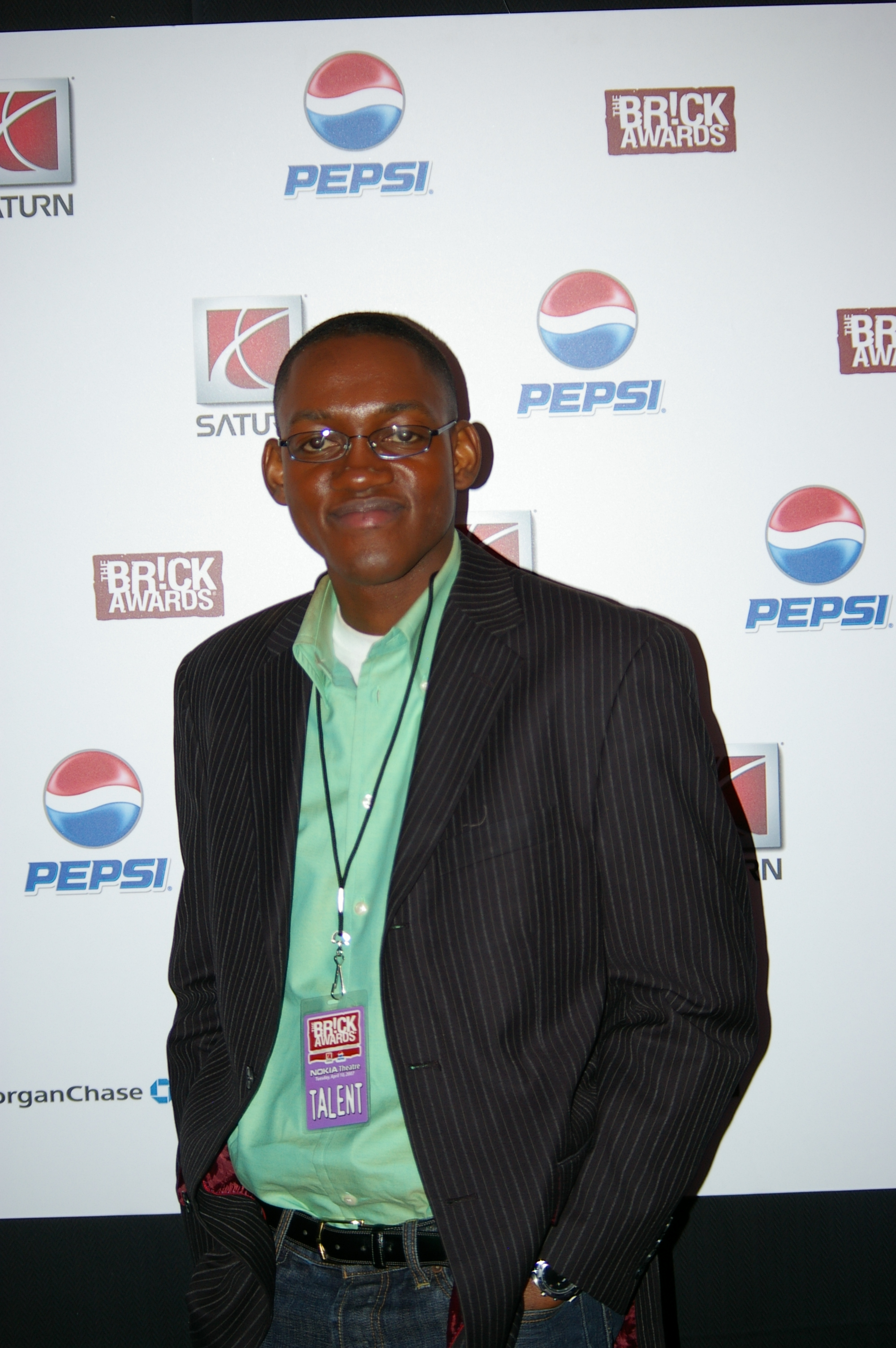 Kimmie Weeks at the Brick Awards in New York City. Rights granted.